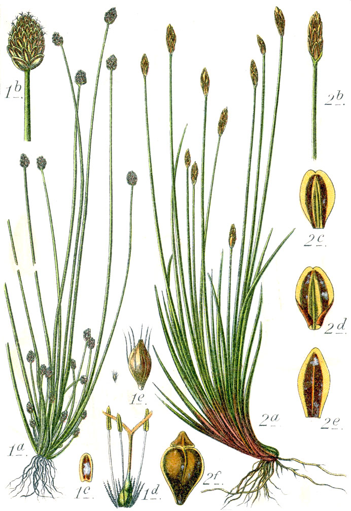 1: Eleocharis ovata (Roth) Roem. & Schult., syn. Cyperus ovatus (Roth) Missbach & E.H.L.Krause, nom. ill. 2. Eleocharis multicaulis (Sm.) Desv., syn. Cyperus multicaulis (Sm.) Missbach & E.H.L.Krause Original Caption 1. Köpfchen-Simse, Cyperus ovatus 2. Büschel-Simse, C. multicaulis